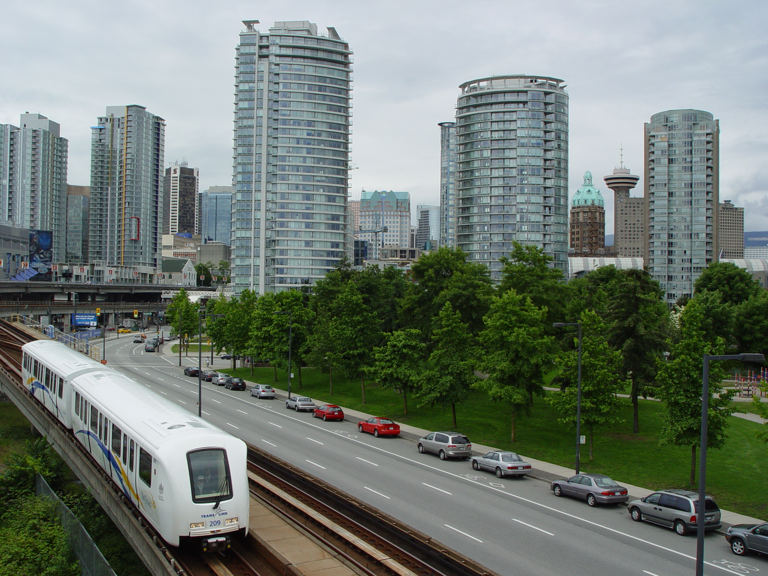 Looking westbound into Vancouver from the Georgia (or Dunsmuir) viaduct, taken from the bridge sidewalk.